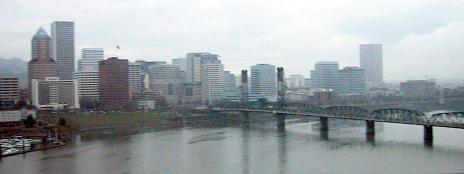 copyright assigned to wikipedia by photographer Taken from trip, Feb 2003